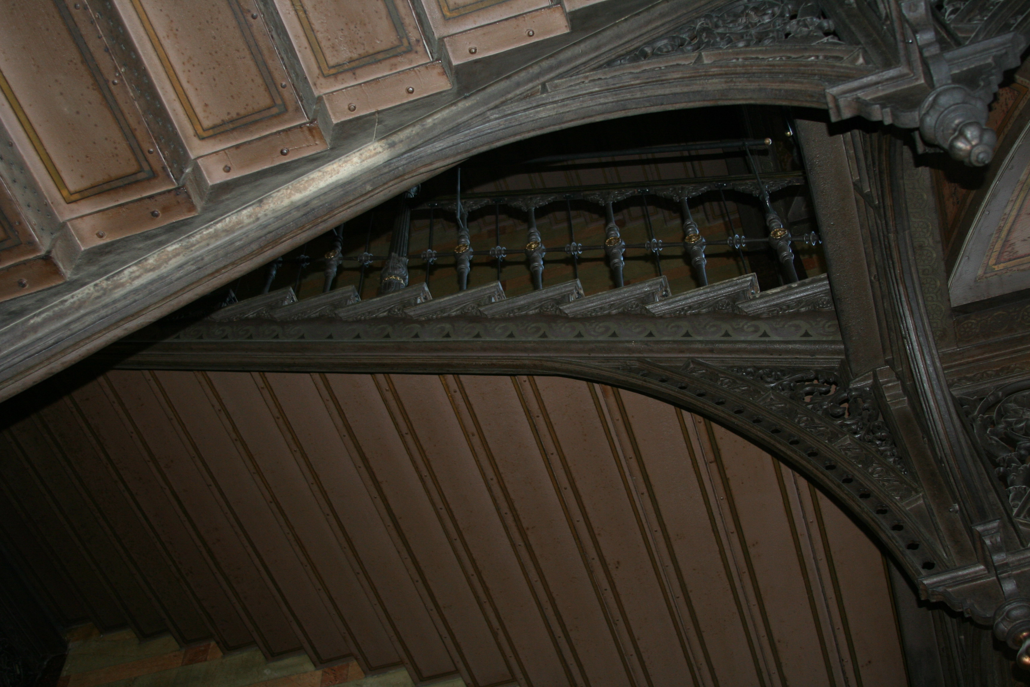 Helsinki University Museum, Arppeanum building, Helsinki, Finland. Main staircase, seen underneath. Steps are made of steel plate, other parts mainly of cast iron. Architect Carl Albert Edelfelt. Completed in 1869.